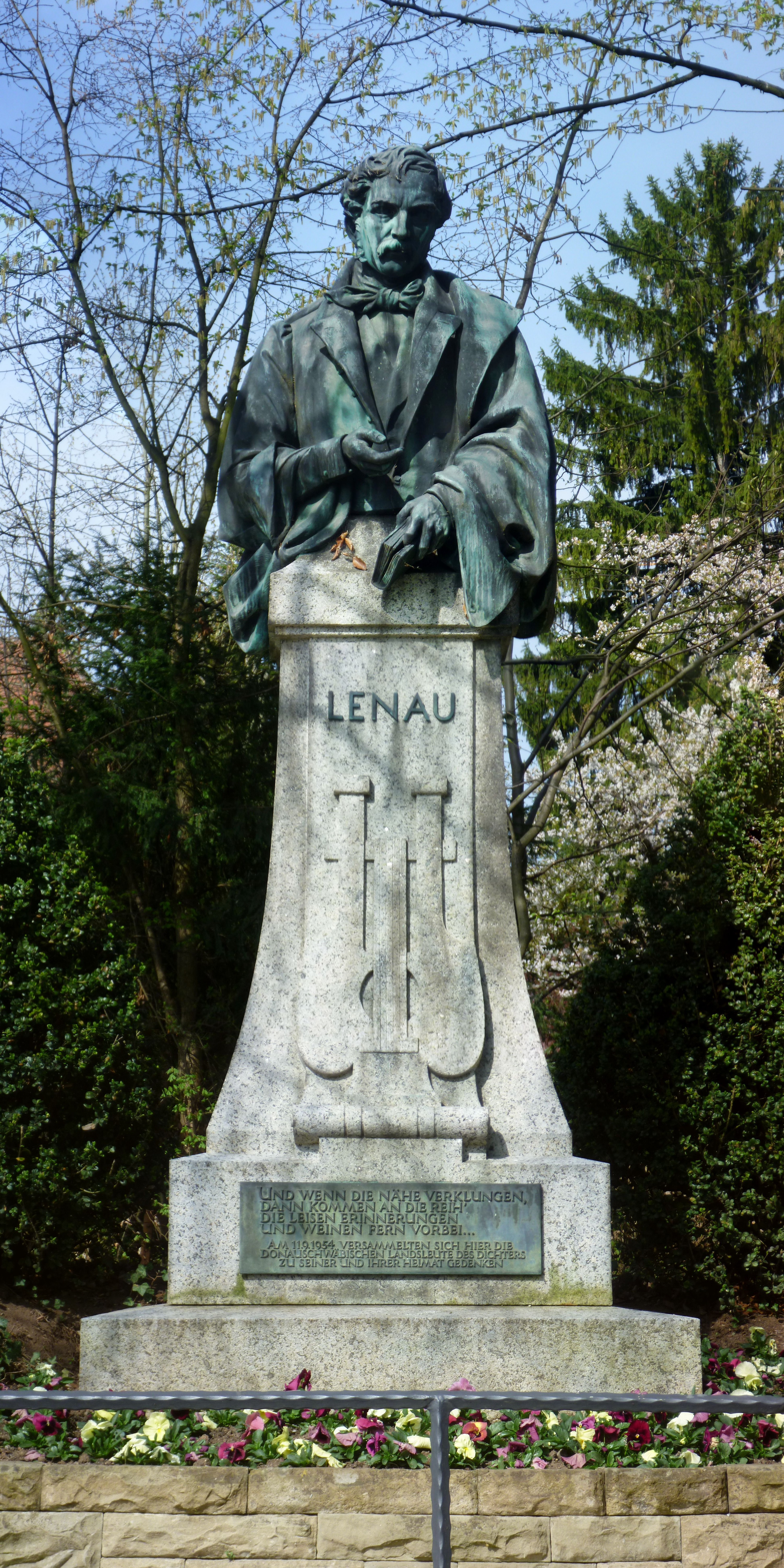 Emil Kienlen, Lenau-Denkmal in Esslingen a. N., 1903